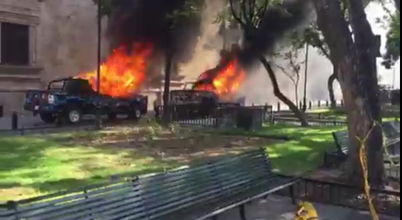 Two patrols on fire during the protests over the death of Giovanni Lopez in Guadalajara.